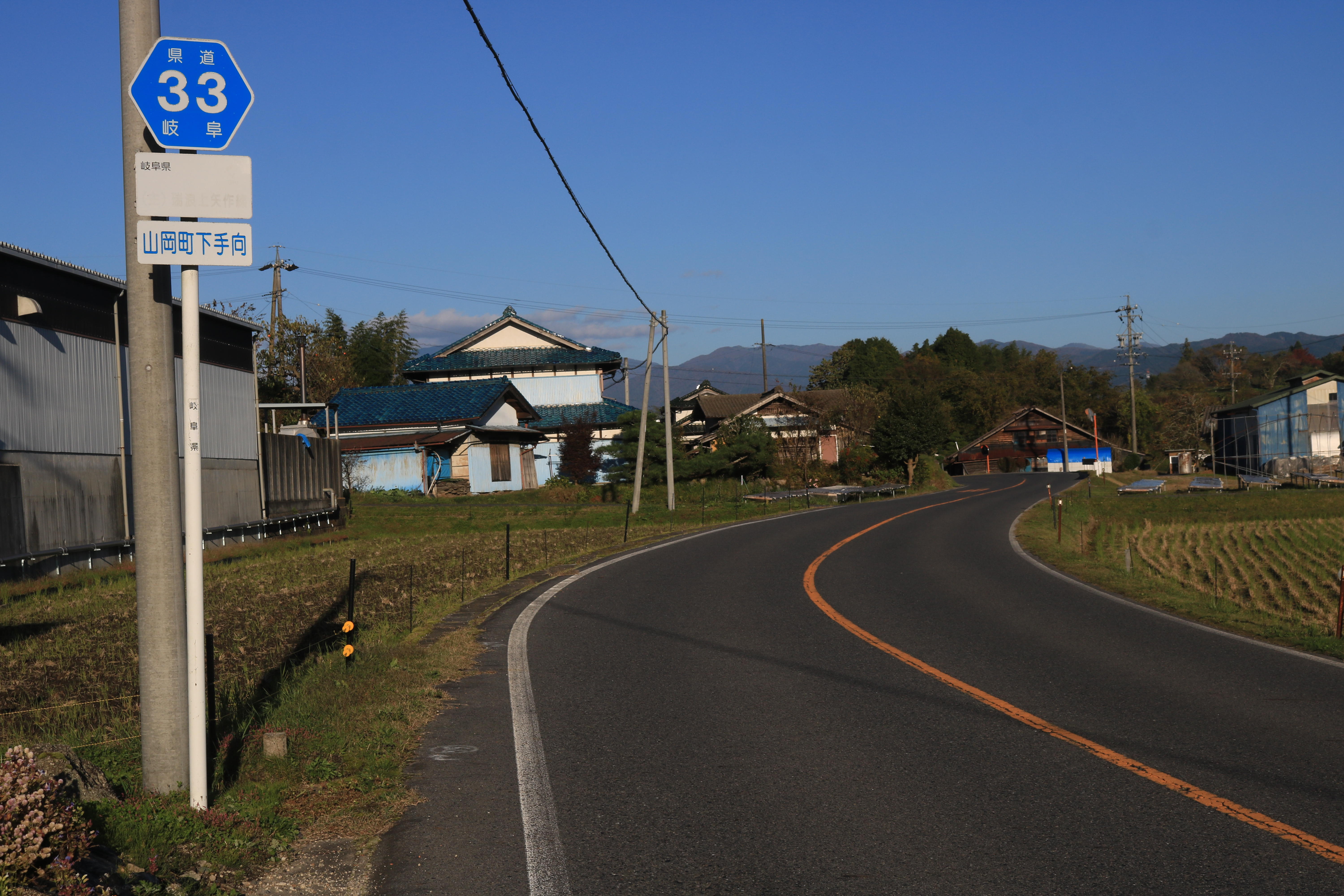 Gifu Prefectural Road Route 33 in Shimotoge, Yamaokacho, Ena, Gifu Prefecture, Japan.